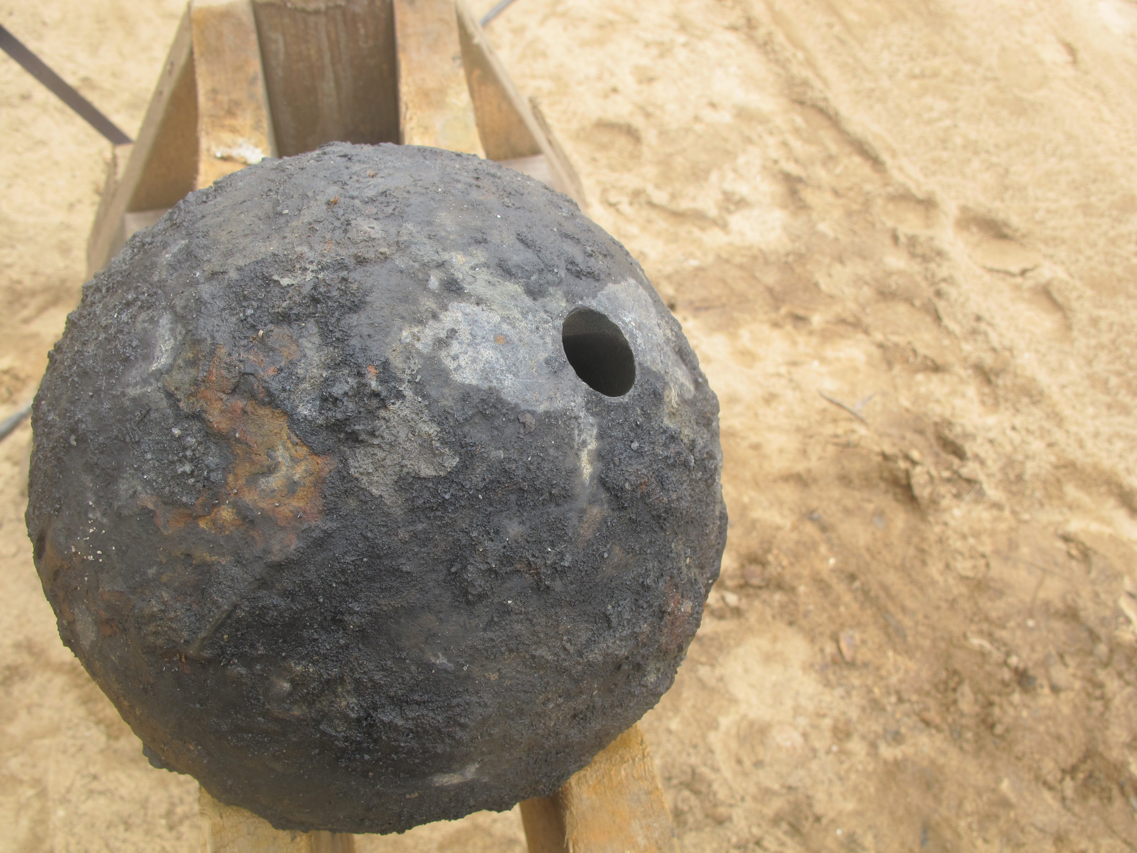 A Dahlgren projectile from the CSS Georgia sits after having its bulk explosives and fuze removed during the inerting process, Nov. 4. Dahlgren cannonballs weigh approximately 80-100 pounds and were fired from 9,000-pound Dahlgren cannons. USACE photo by Jeremy S. Buddemeier.